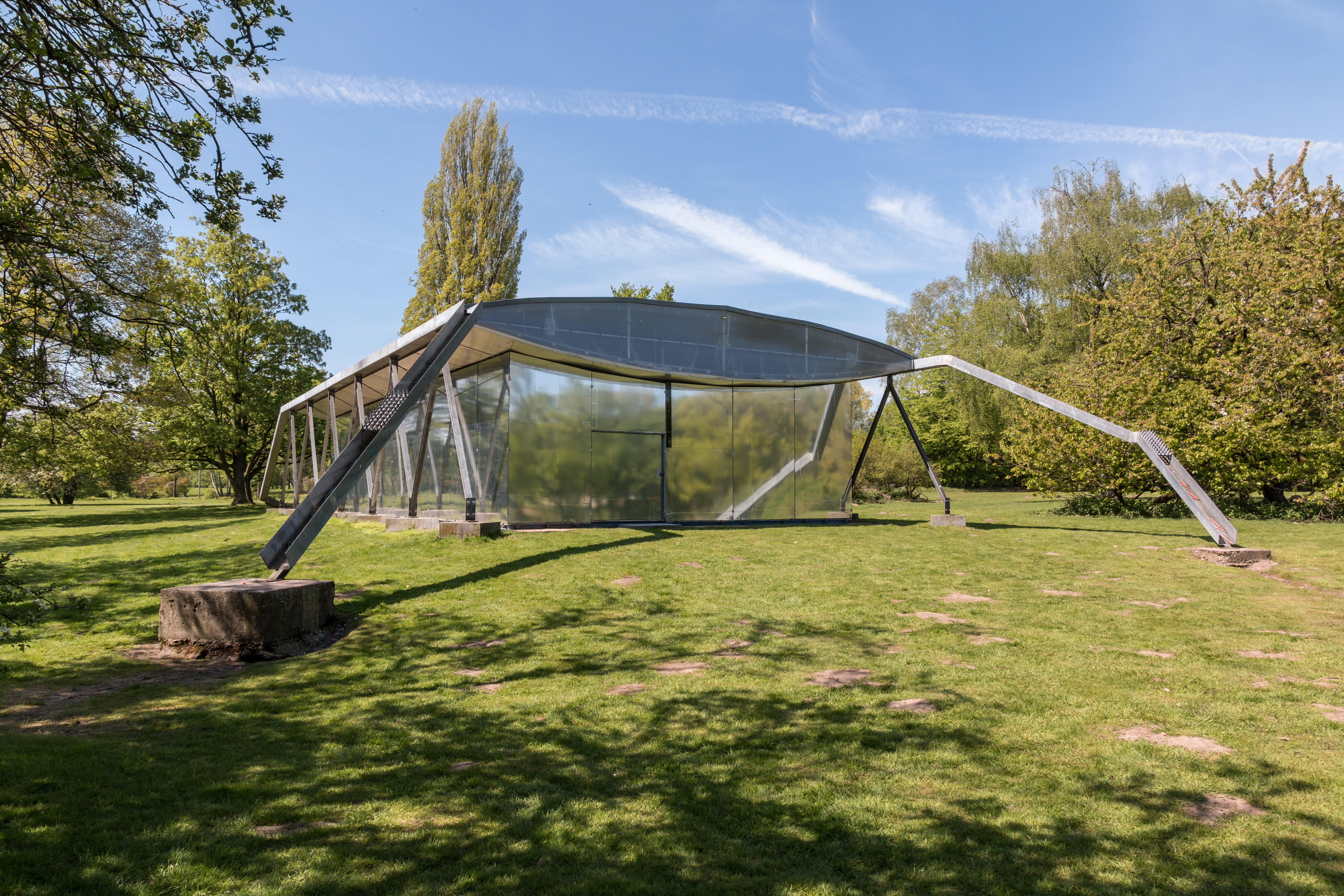 Wewerka-Pavillon at the Aasee in Münster, North Rhine-Westphalia, Germany Sculpture TitleWewerka-PavillonArtistStefan WewerkaDate1989